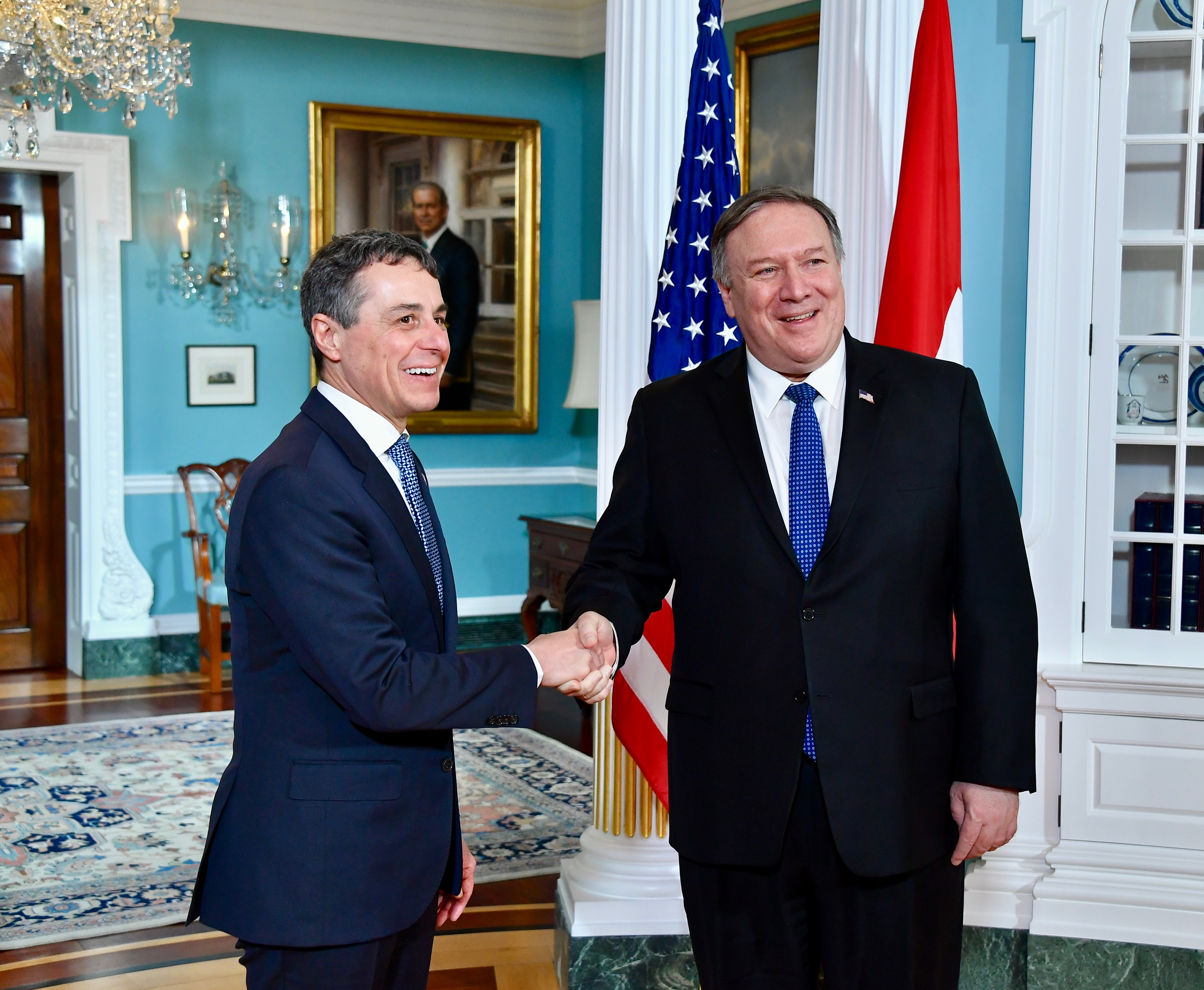 U.S. Secretary of State Michael R. Pompeo welcomes Swiss Foreign Minister Ignazio Cassis to the U.S. Department of State in Washington, D.C., on February 7, 2019. [State Department photo by Michael Gross/ Public Domain]